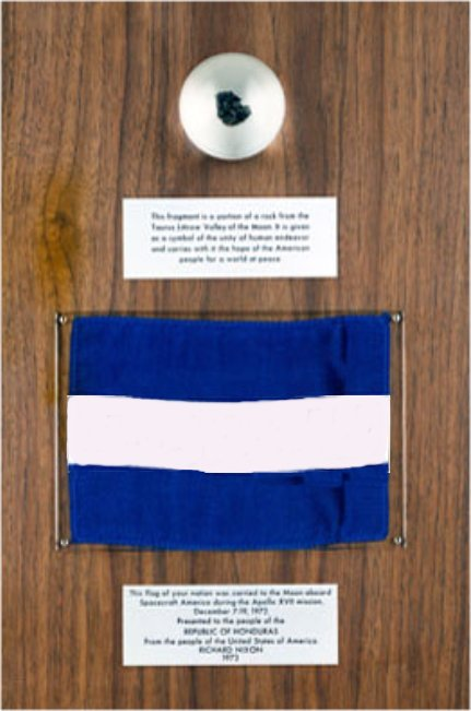 Honduras Apollo 17 plaque simulated cover-up of country flag